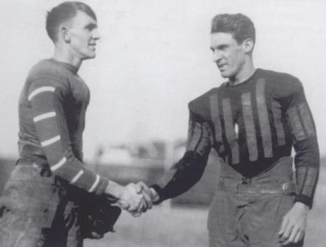 Vanderbilt captain Jess Neely shaking hands with Michigan captain Paul Goebel prior to the match between their teams in 1922. Goebel is on the left, Neely on the right. Neely's left arm was injured.